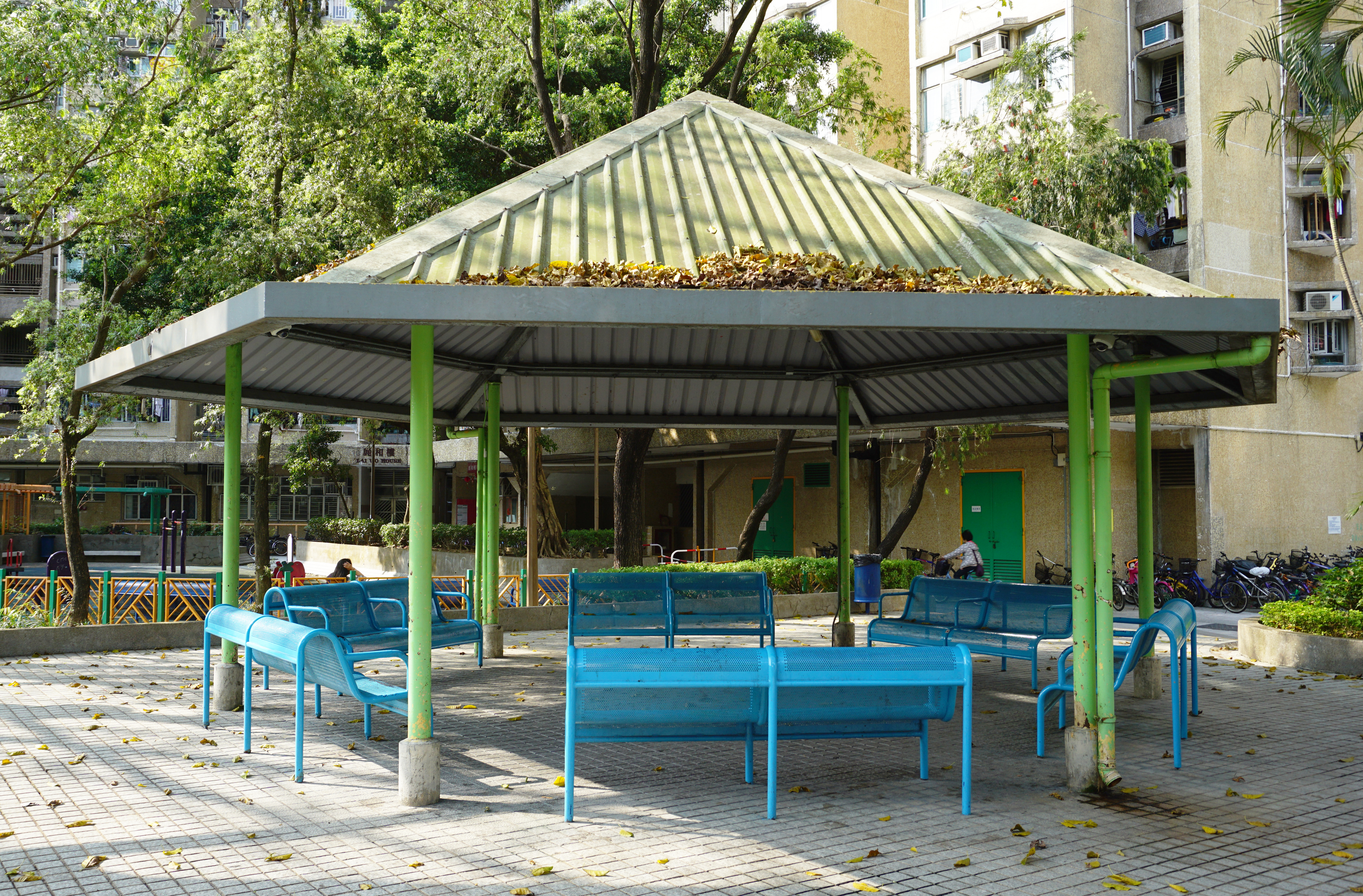 Tai Wo Estate in Tai Po, Hong Kong.